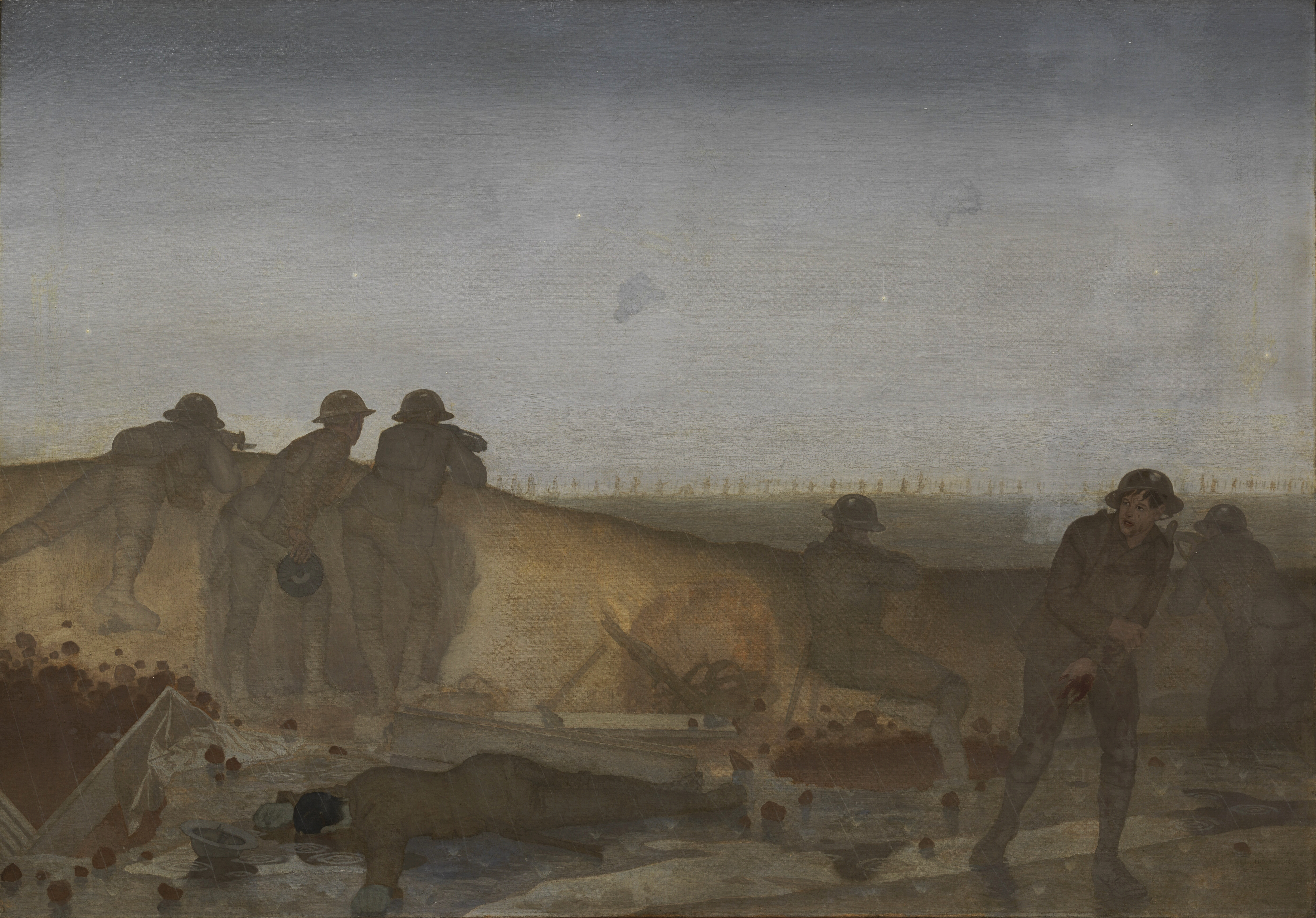 A German Attack on a Wet Morning, April 1918 image: An attack in misty, wet weather. From the cover of a low breastwork riflemen and a Lewis gun team face the German attackers. In the foreground a soldier lies dead, facedown in the mud of the trench while another, with a wounded hand, walks away to the right.